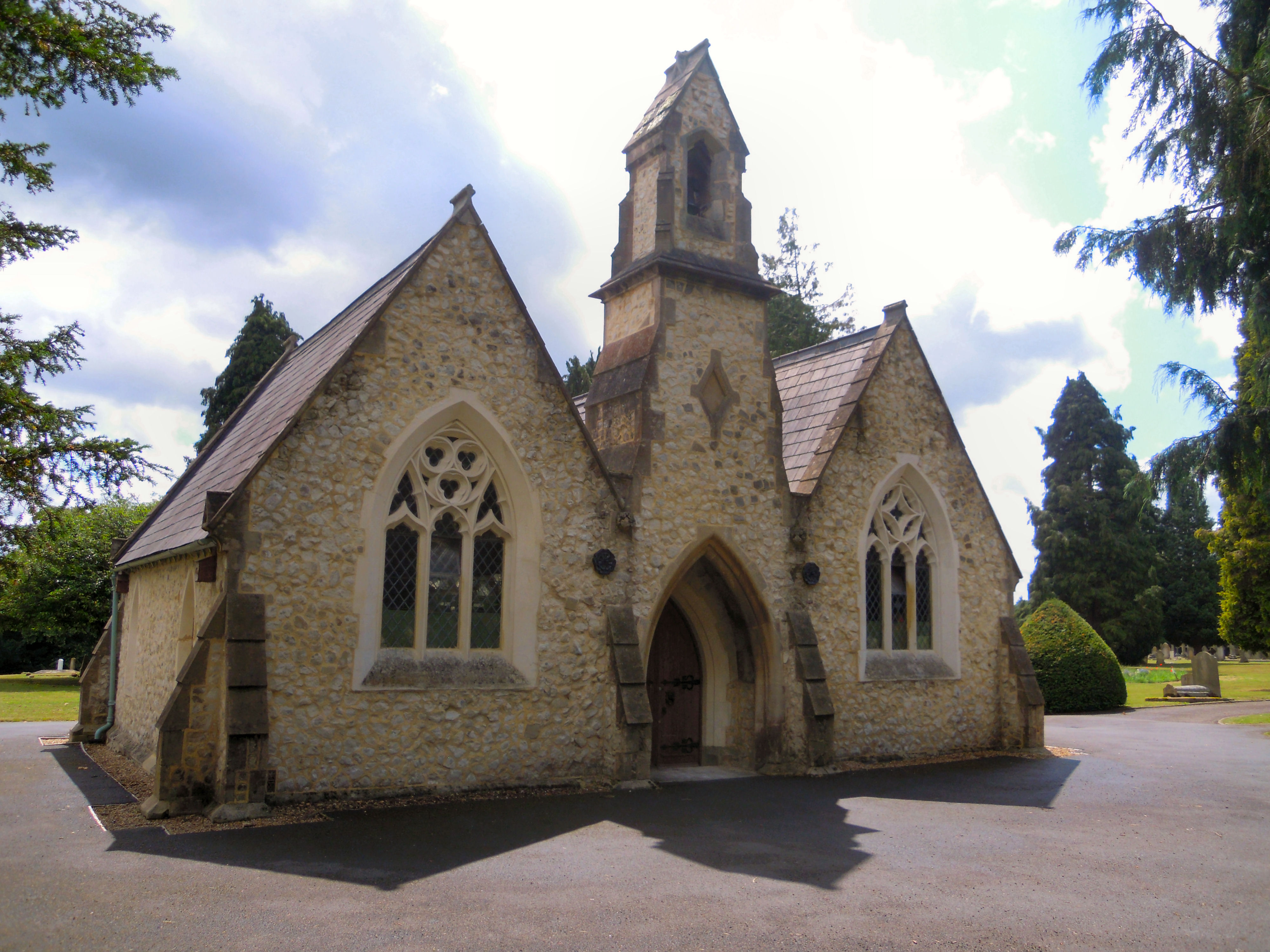 The former twin chapels at West Street Cemetery in Farnham in Surrey are now used as workshops